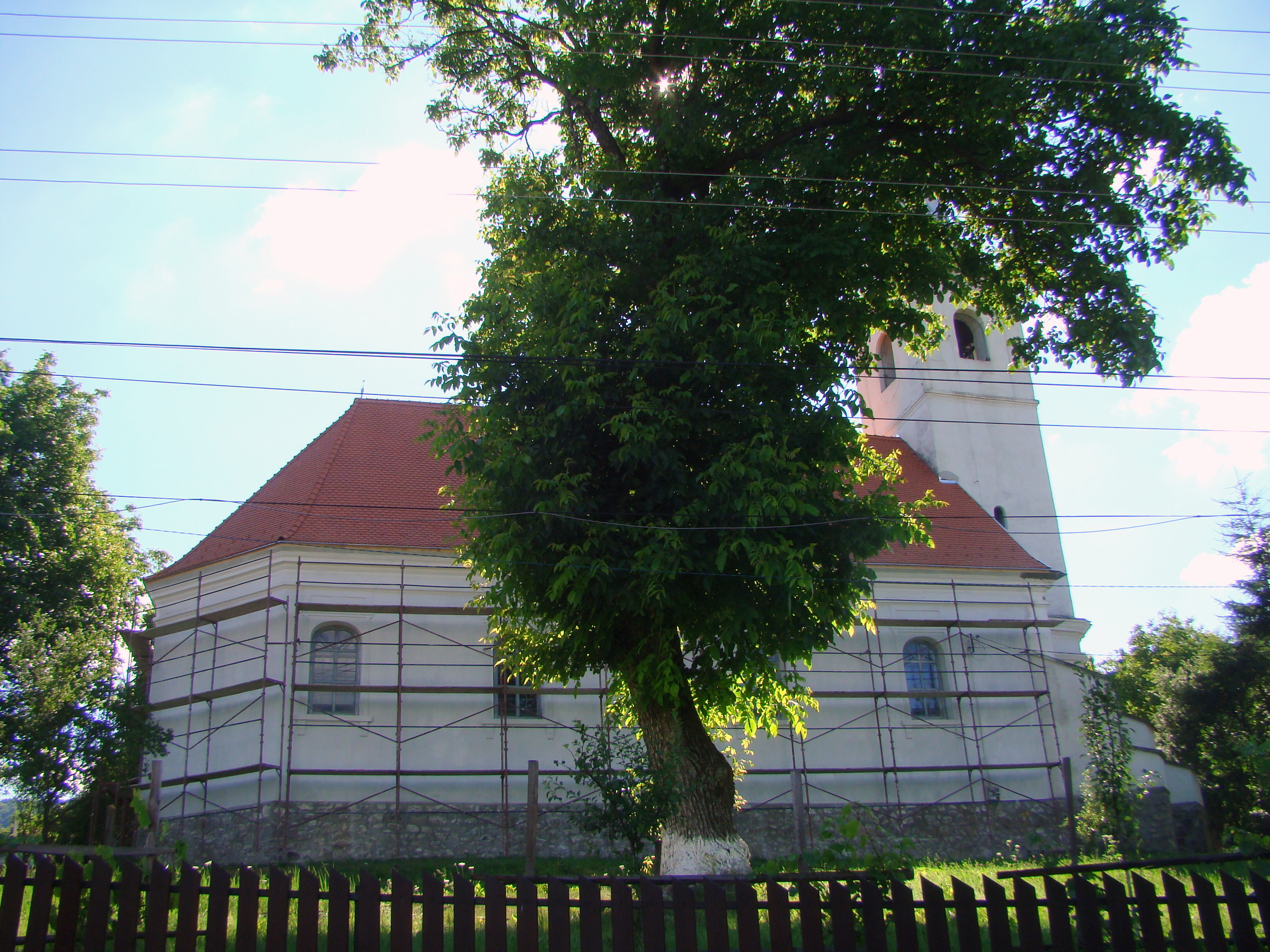 Reformed church in Ocna de Jos, Harghita County, Romania